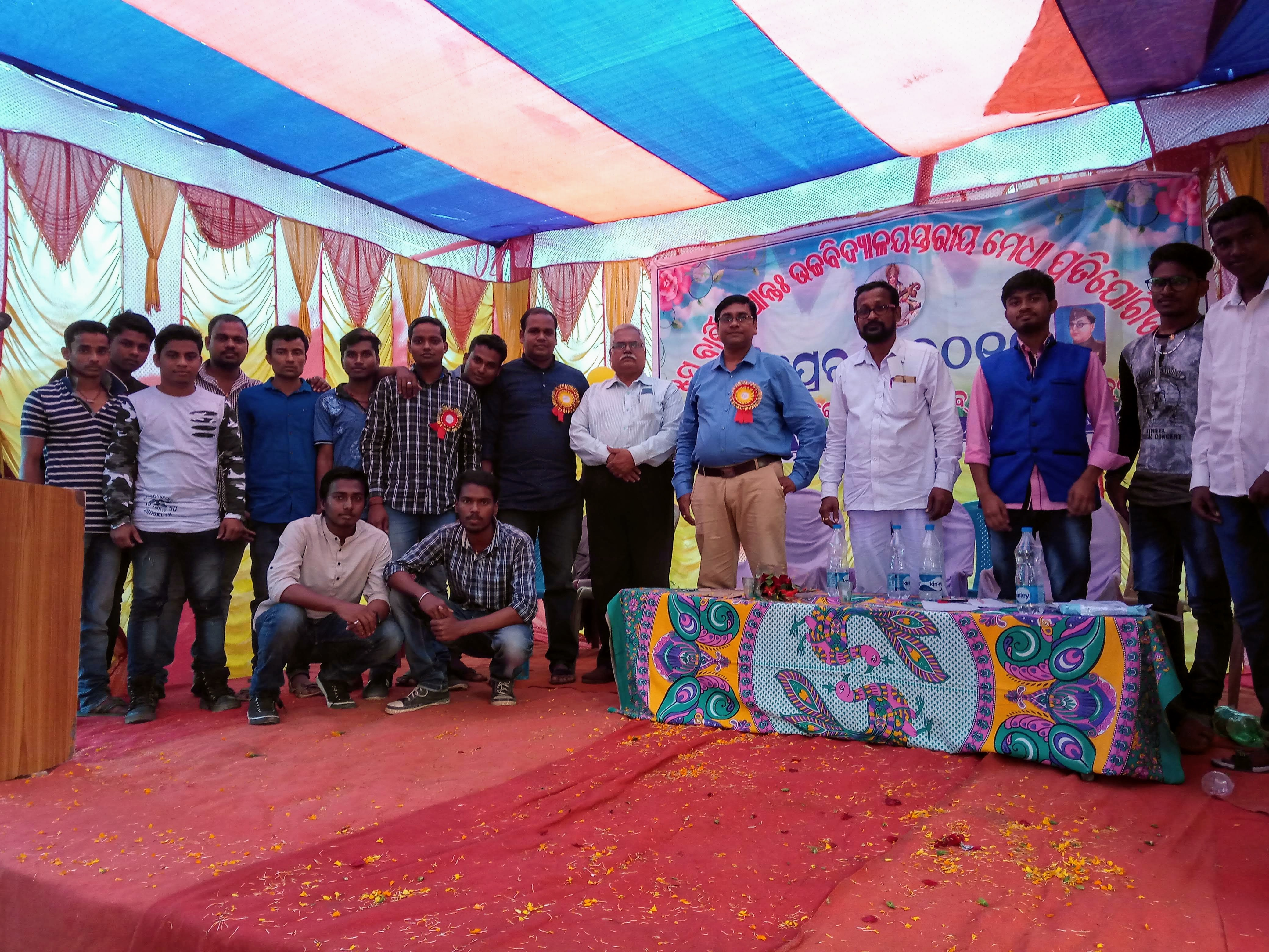 Prerana is an Inter-High School level Educational and Cultural Competition is organised by MKYC on 23rd January (Netaji Subash Chandra Bose's Birth Anniversary) every year since 2015.